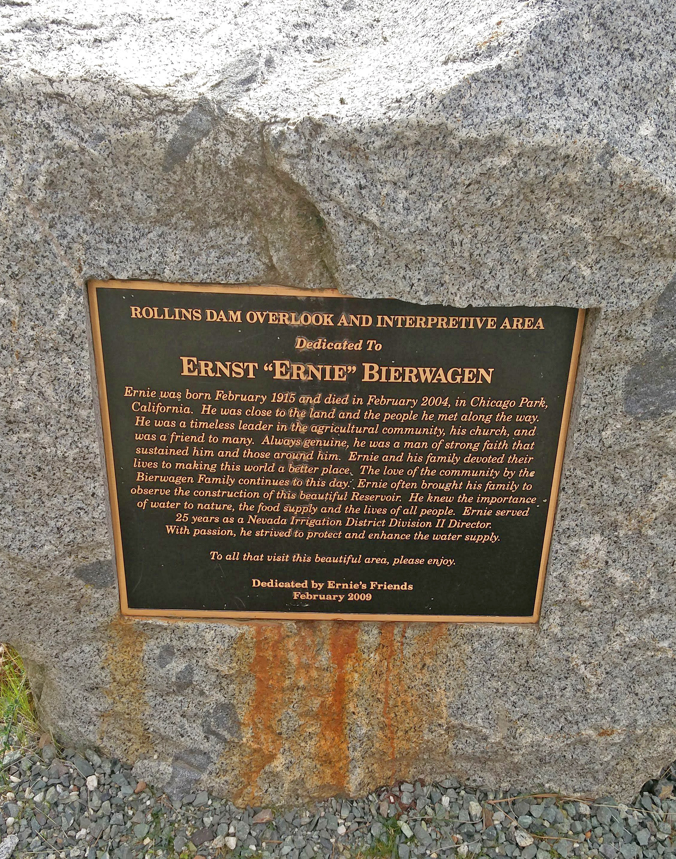 Ernie plate